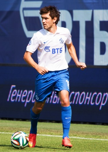 Yuri Zhirkov 10.08.2014